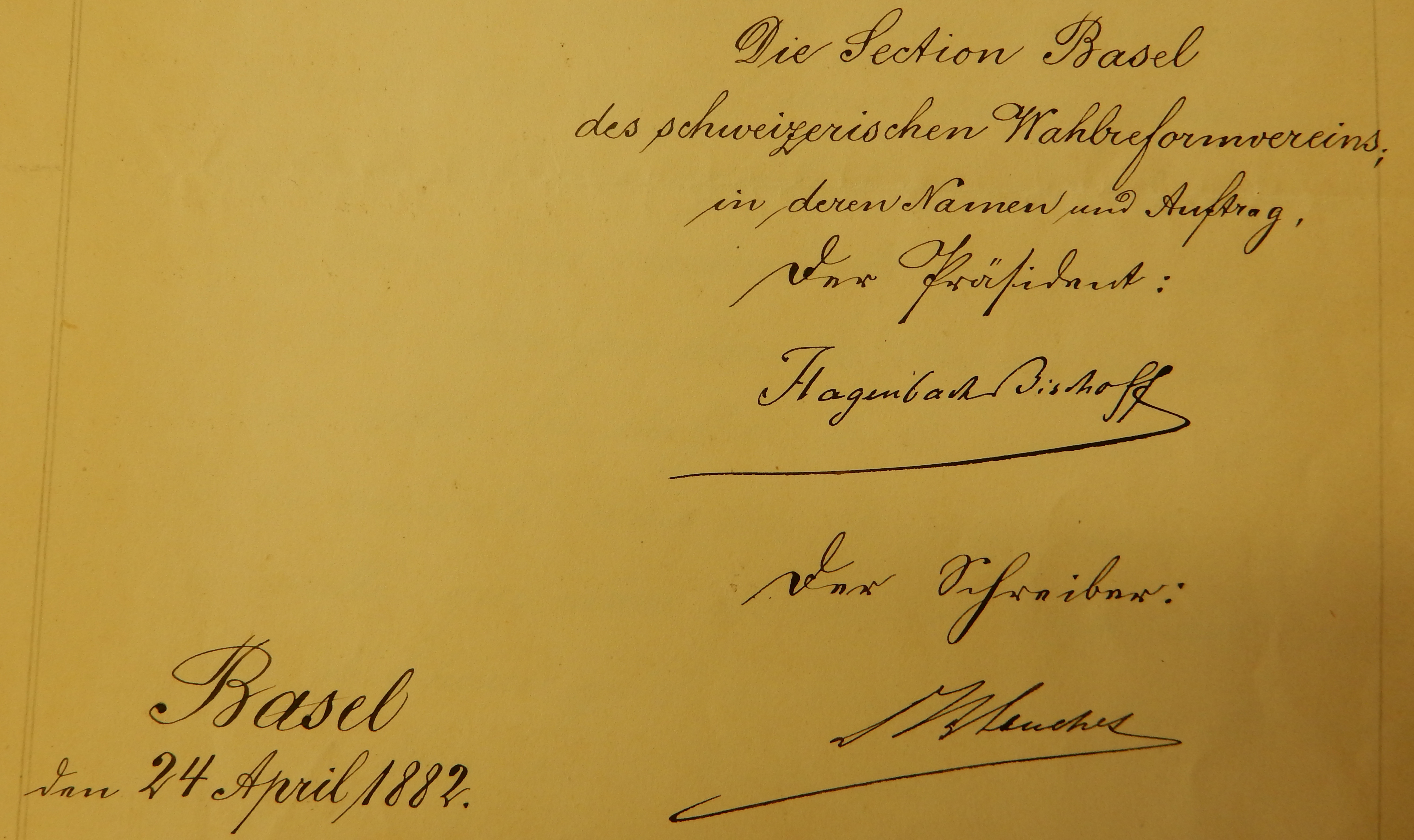 Signature of Eduard Hagenbach-Bischoff, Swiss physicist